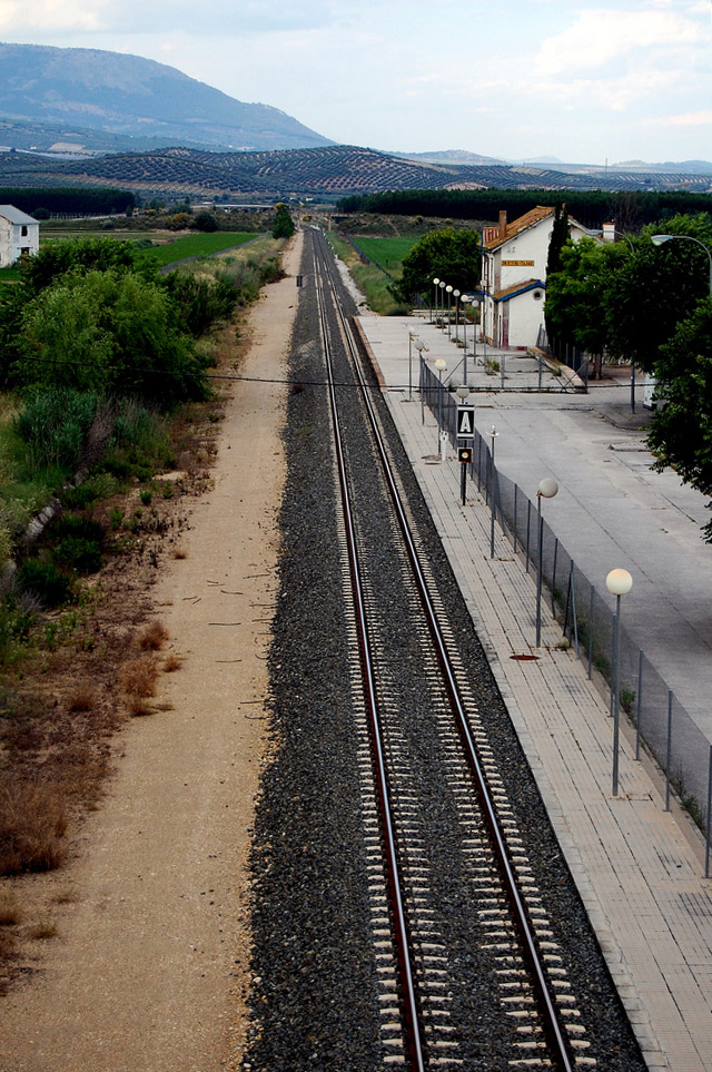 Huétor Tájar station (Grenade, Spain)